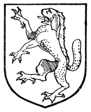 Fig. 374.—A sea-dog.